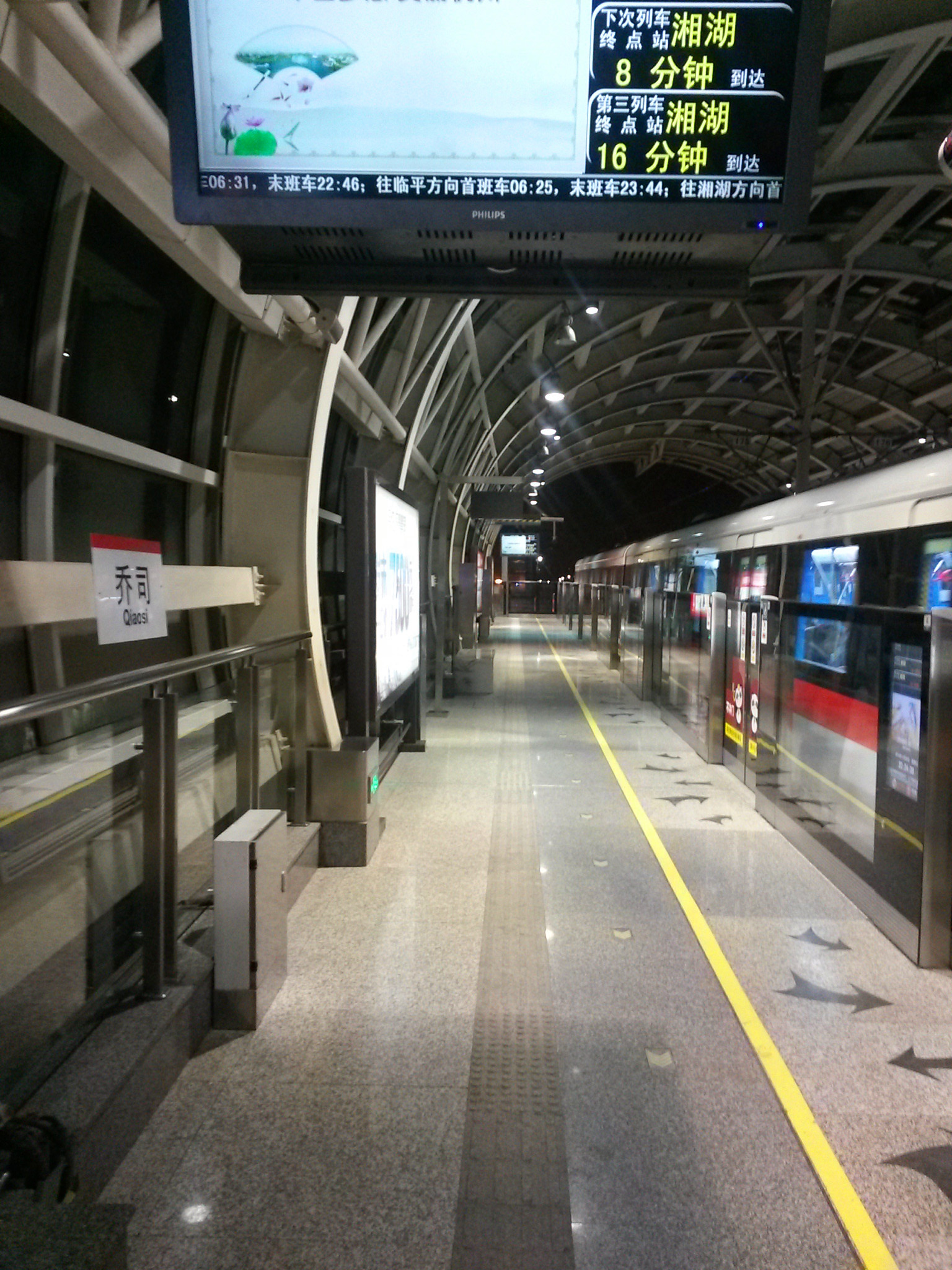 Qiaosi Station